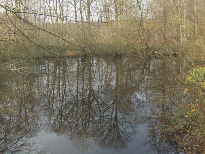 Mare des 14 arpents, pond in forêt de Chantilly